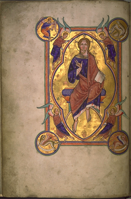 Folio 4 verso from the Aberdeen Bestiary.